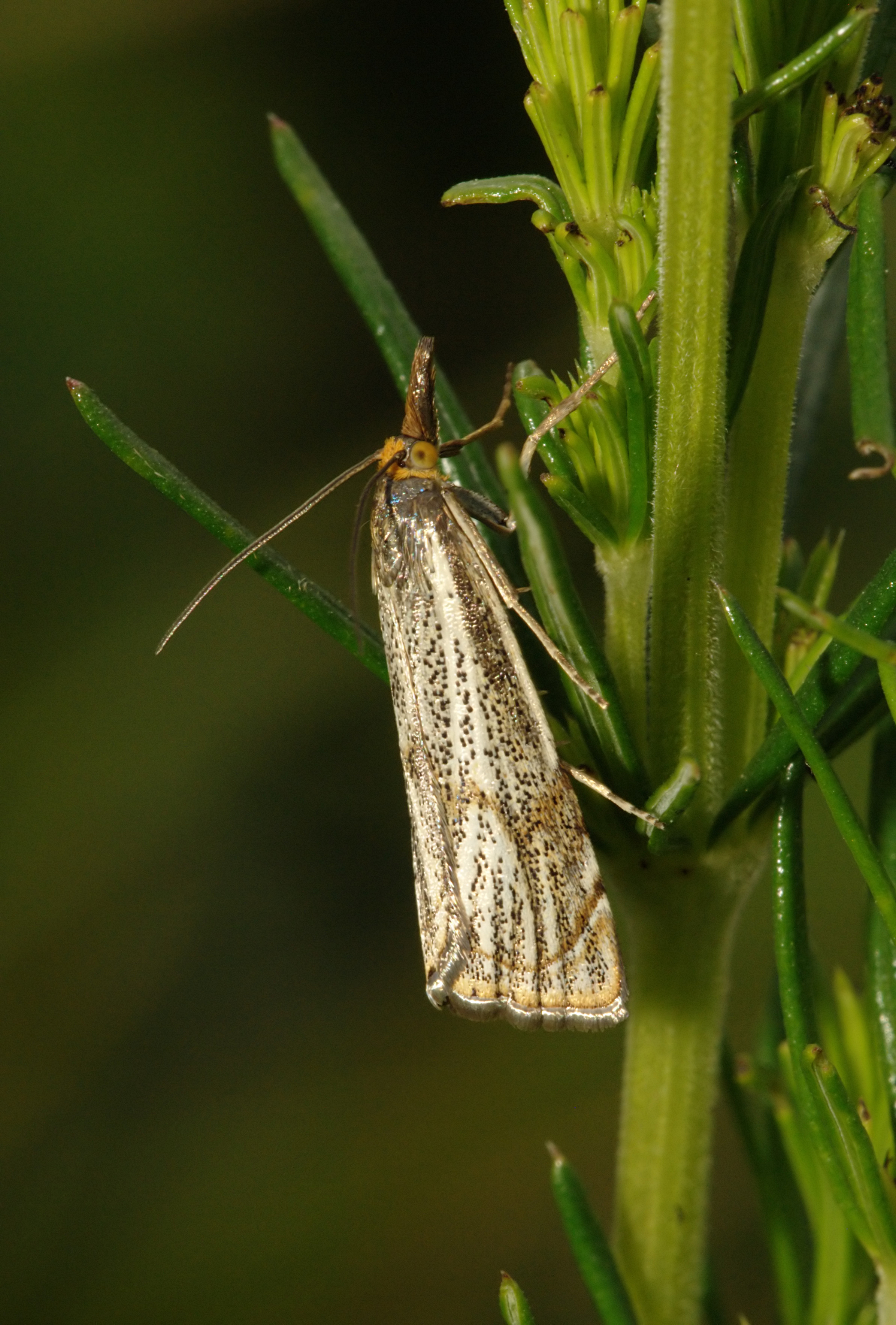 Thisanotia chrysonuchella Location: near Podgorje, Slovenia 8 EX DG APO IF Makro f/13 Film / Speed: ISO 400 Comment: identification: Heinz Habeler